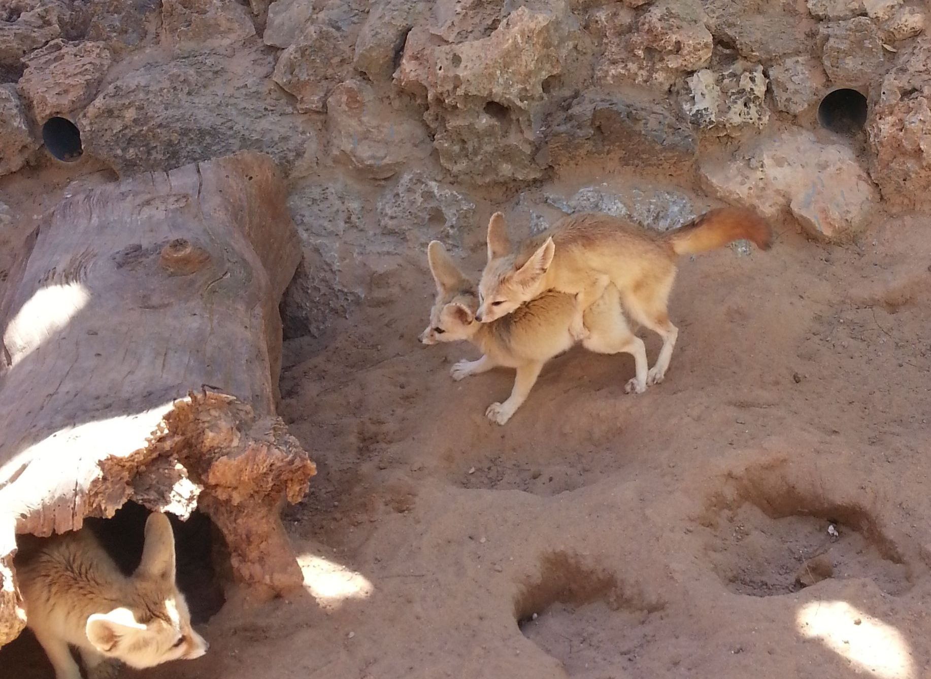 Fenecs copulating